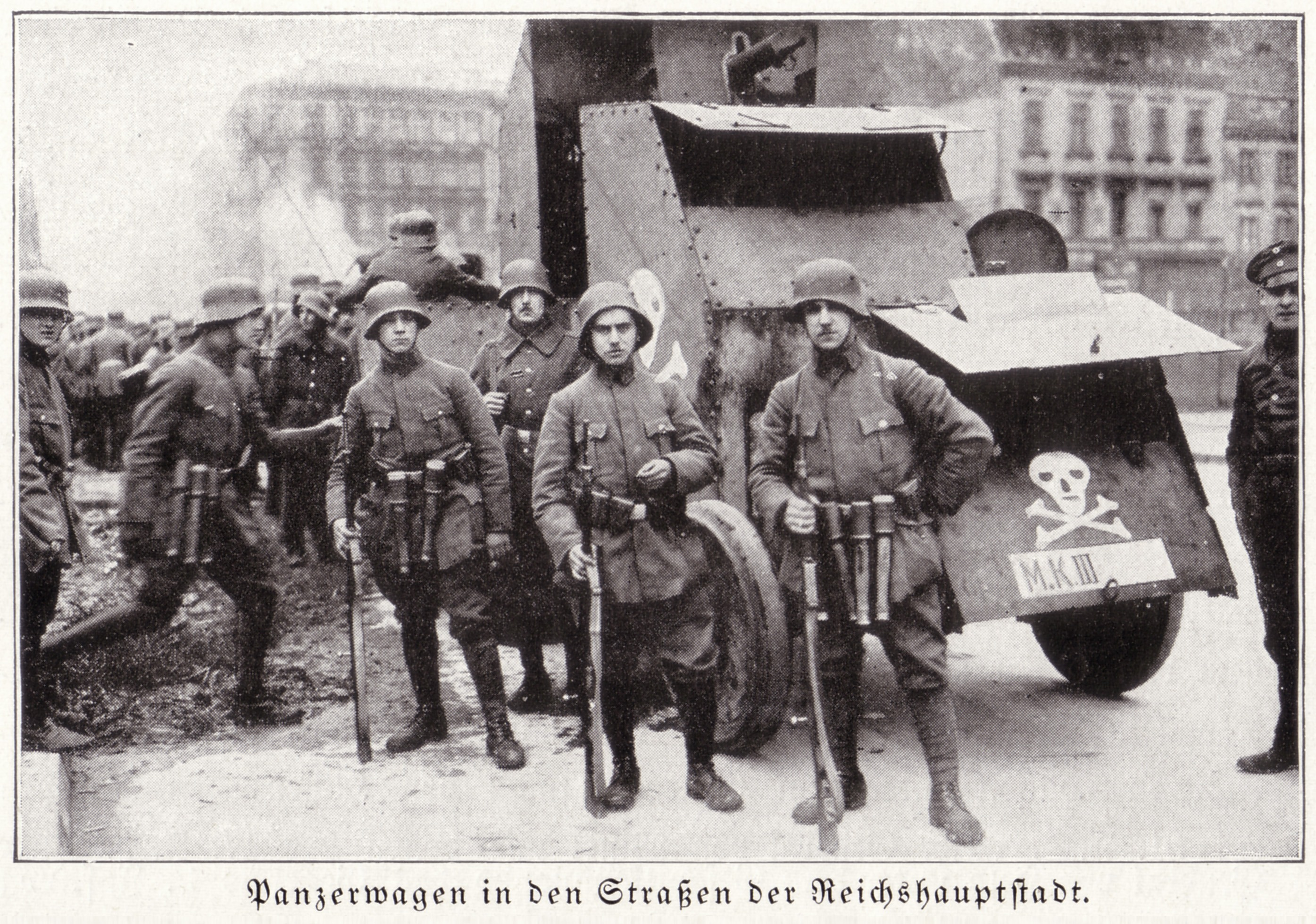 Freikorps in Berlin around 1919 with german steelhelmet M18 for turkish army.